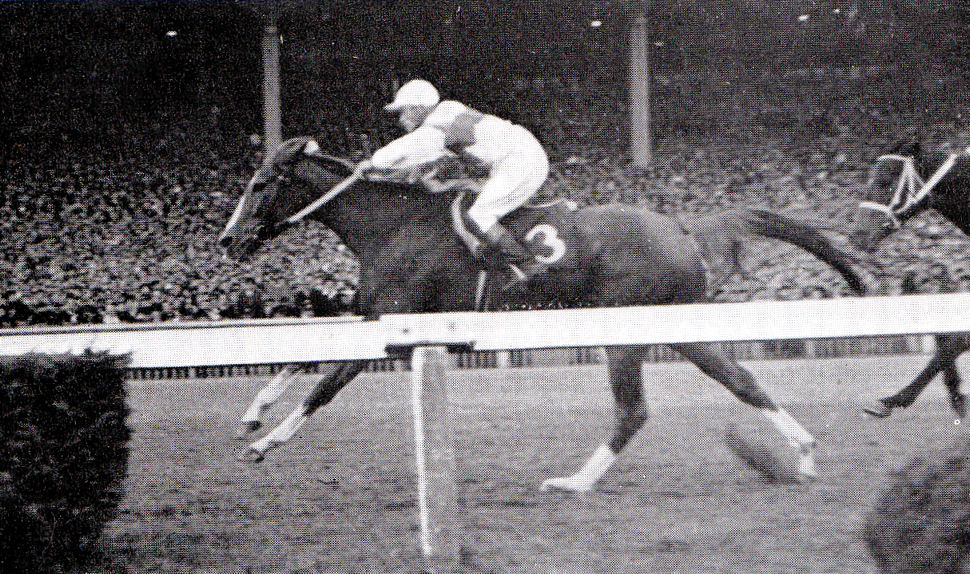 Queen Narubi(1953 Tenno sho autumn)